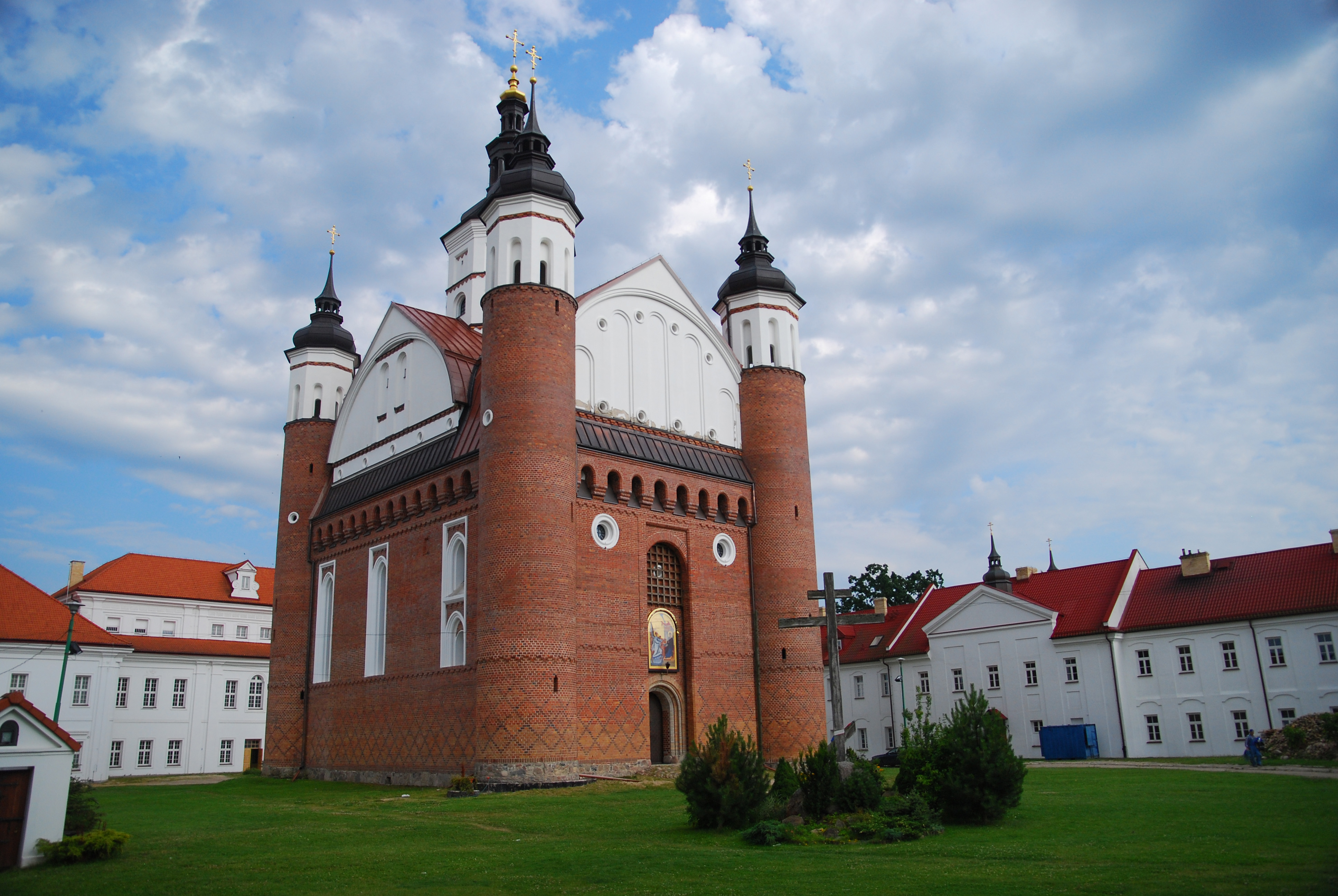 Cerkiew Zwiastowania NMP w Supraślu This photo from Podlaskie Voievodeship was taken during Polish Wikiexpedition 2009 set up by Wikimedia Polska Association. The making of this document was supported by Wikimedia Polska.